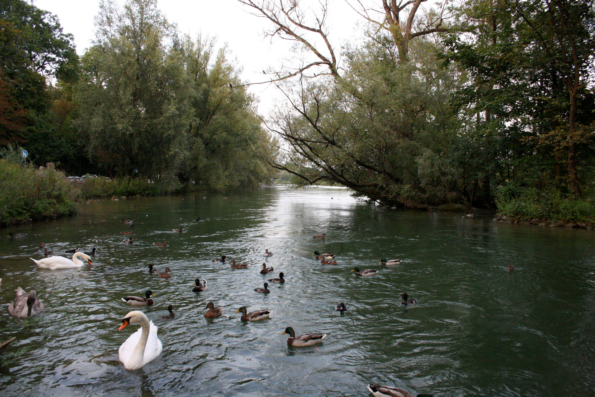 Mühlbach (former Maria-Einsiedel-Bach) in München shortly before flowing into the Isar-Werkkanal